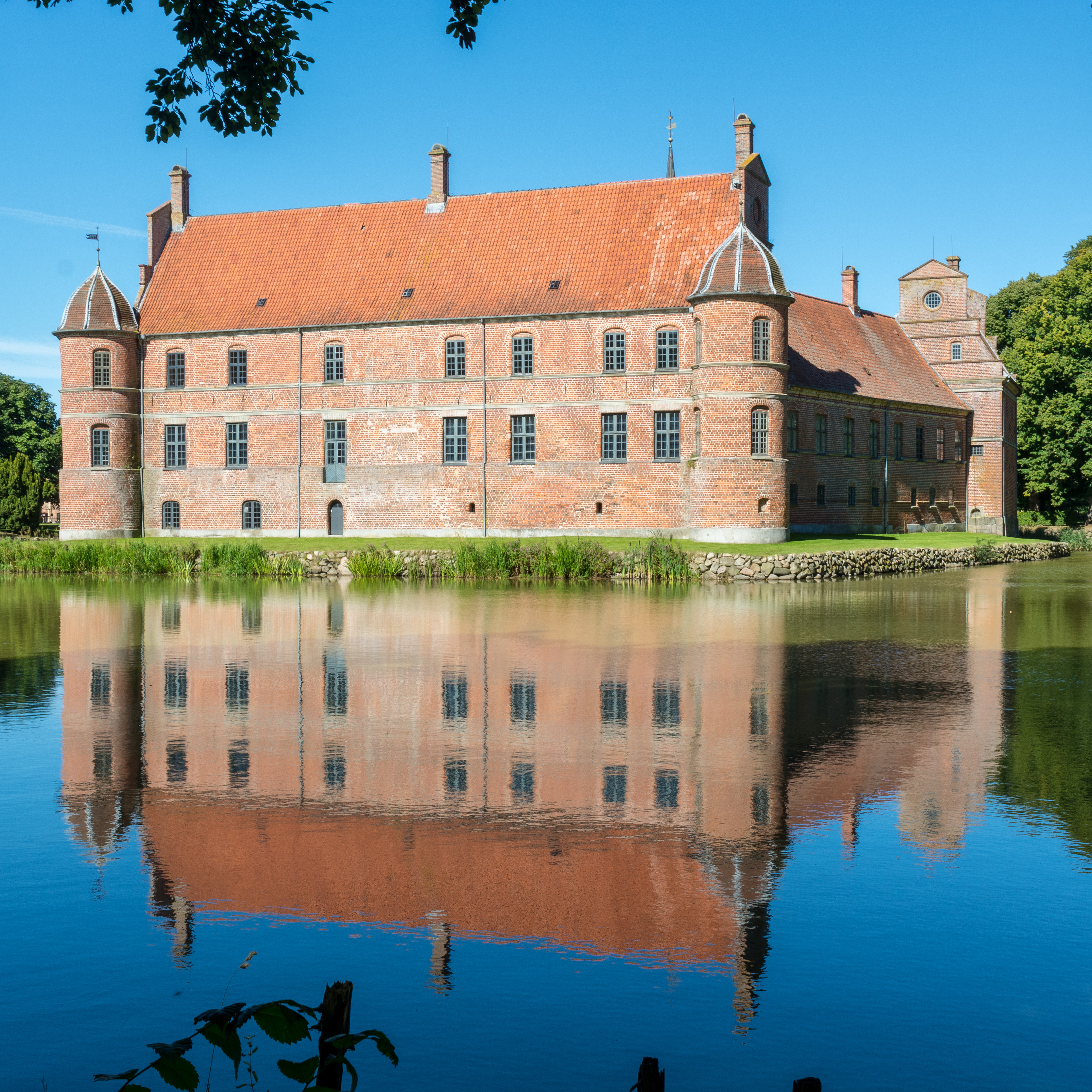 Rosenholm Castle (Syddjurs Kommune).